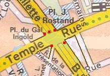 plan of underground entrances of station Belleville in Paris